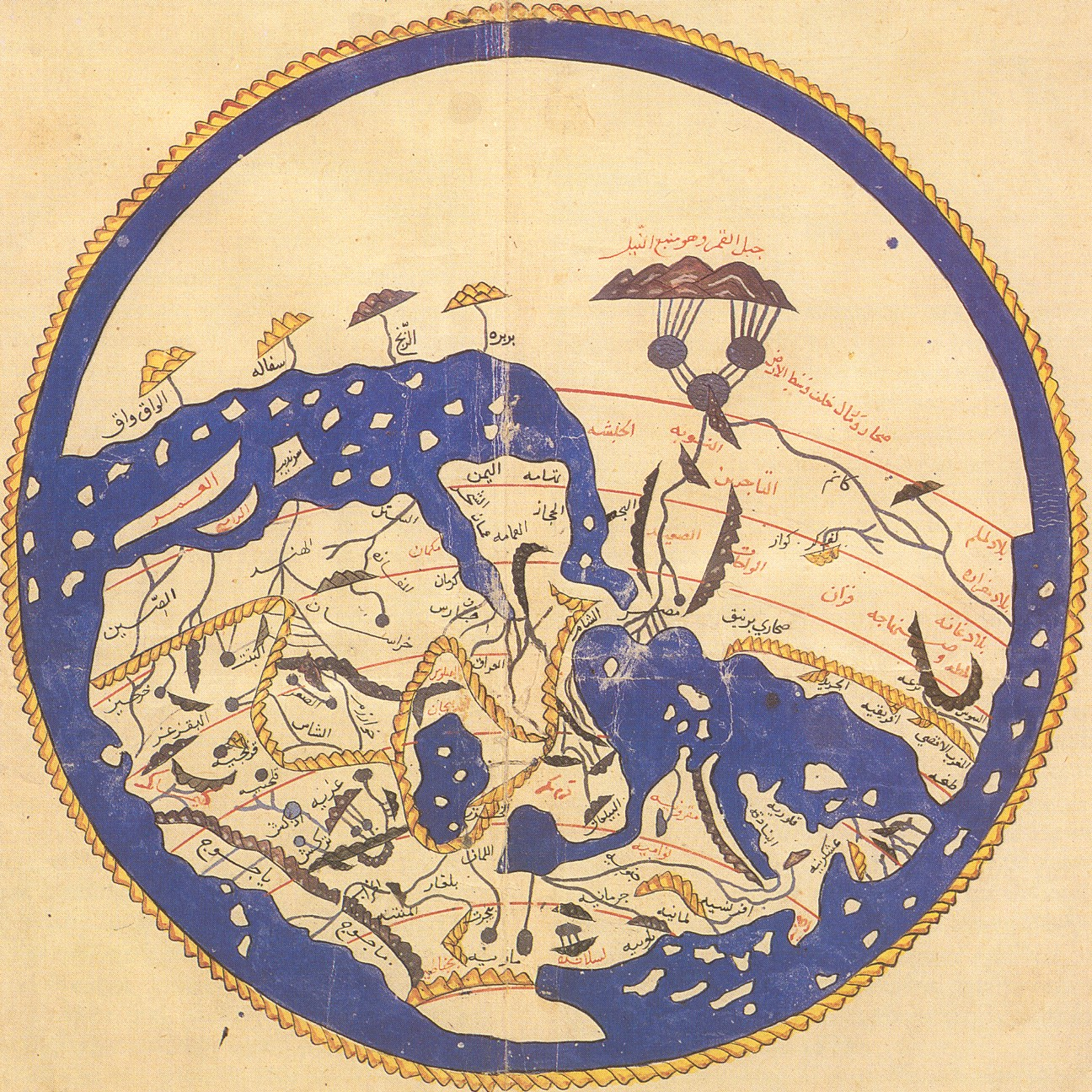 al-Idrisi world map, Arabic from 804/1154/1456 A.D. Oriented with South at the top